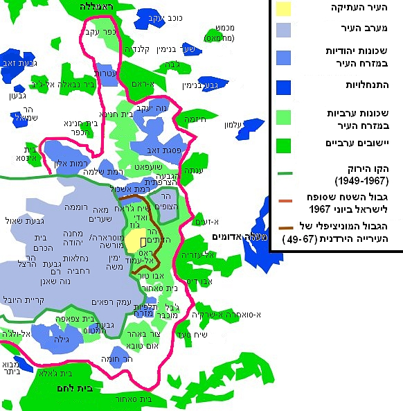 Map of East Jerusalem Old City West Jerusalem and Mount Scopus East Jerusalem, Jewish areas West Bank, Jewish areas East Jerusalem, Arab areas West Bank, Arab areas —1949 Armistice Line —East Jerusalem Boundary —Pre-1967 Municipality Boundary